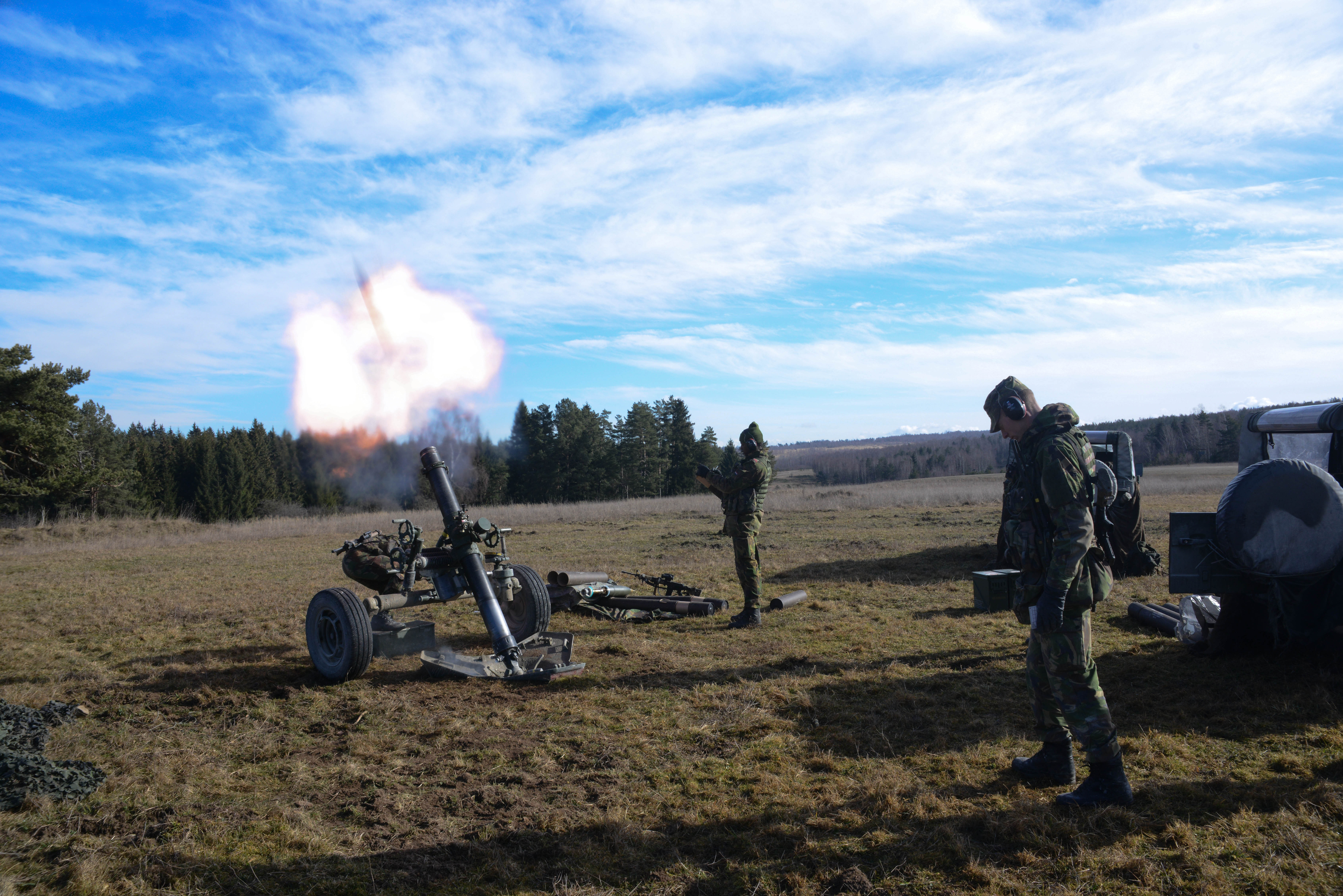 Dutch soldiers, assigned to Fire Support Battalion, Alpha Battery, from t’Harde, Netherlands, fire a 120mm illumination mortar round in preparation for the European Battlegroup Certification, at the Grafenwoehr Training Area in Germany, Feb. 22, 2014. European Union Battlegroup 2014-02, the European Union’s quick reaction force, is training 1,550 soldiers from Belgium, the Netherlands, Luxembourg, Spain and the former Yugoslavian Republic of Macedonia as part of the certification training. (Photo by U.S. Army Spc. Franklin R. Moore/Released)